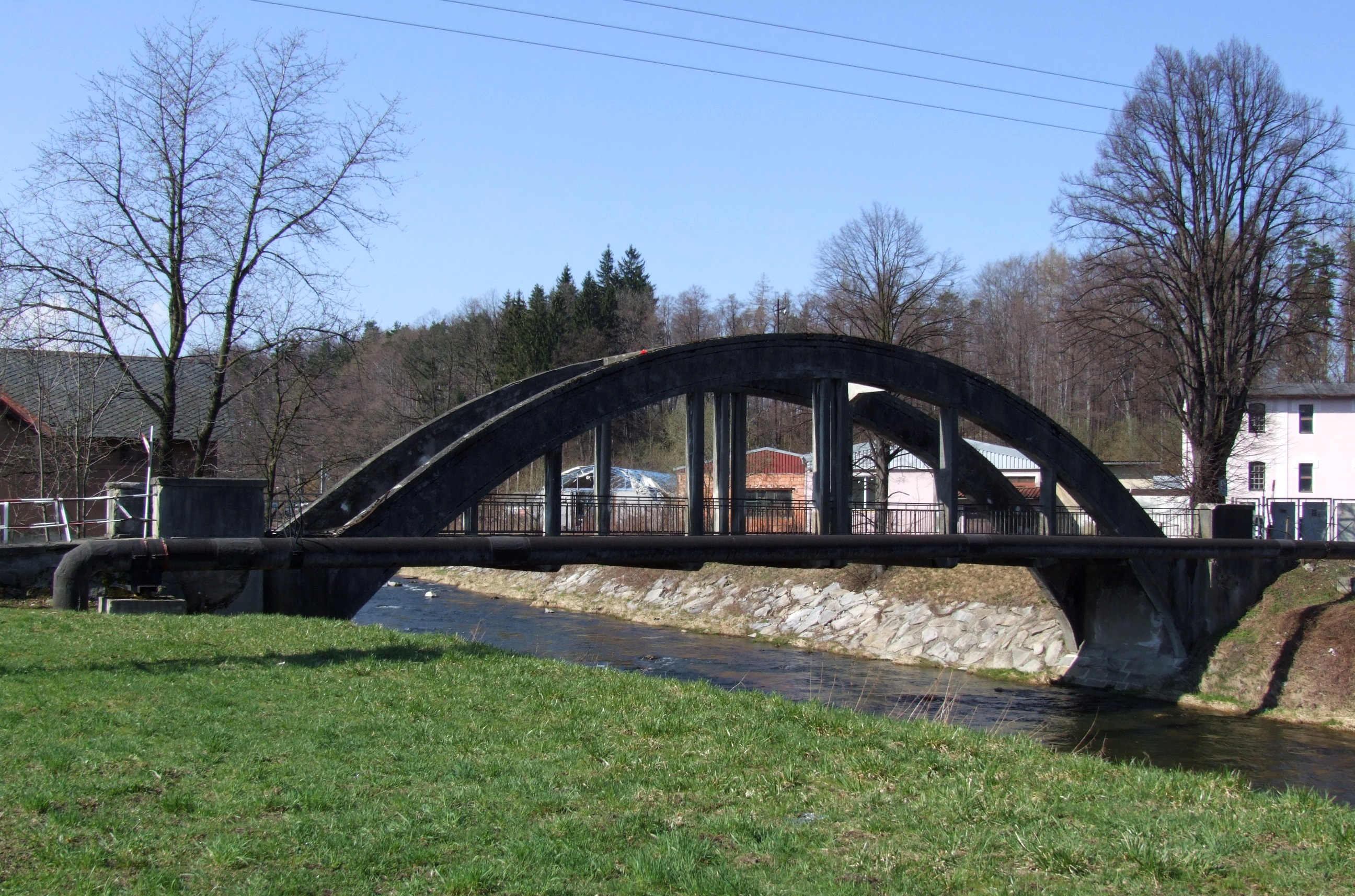 Mikulovice (Niklasdorf) - bridge over Bělá (Biela) river